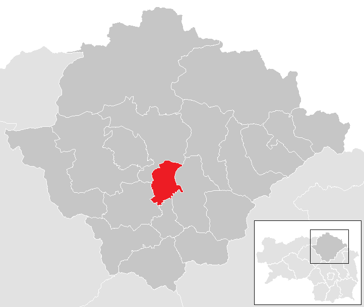 district Bruck-Mürzzuschlag